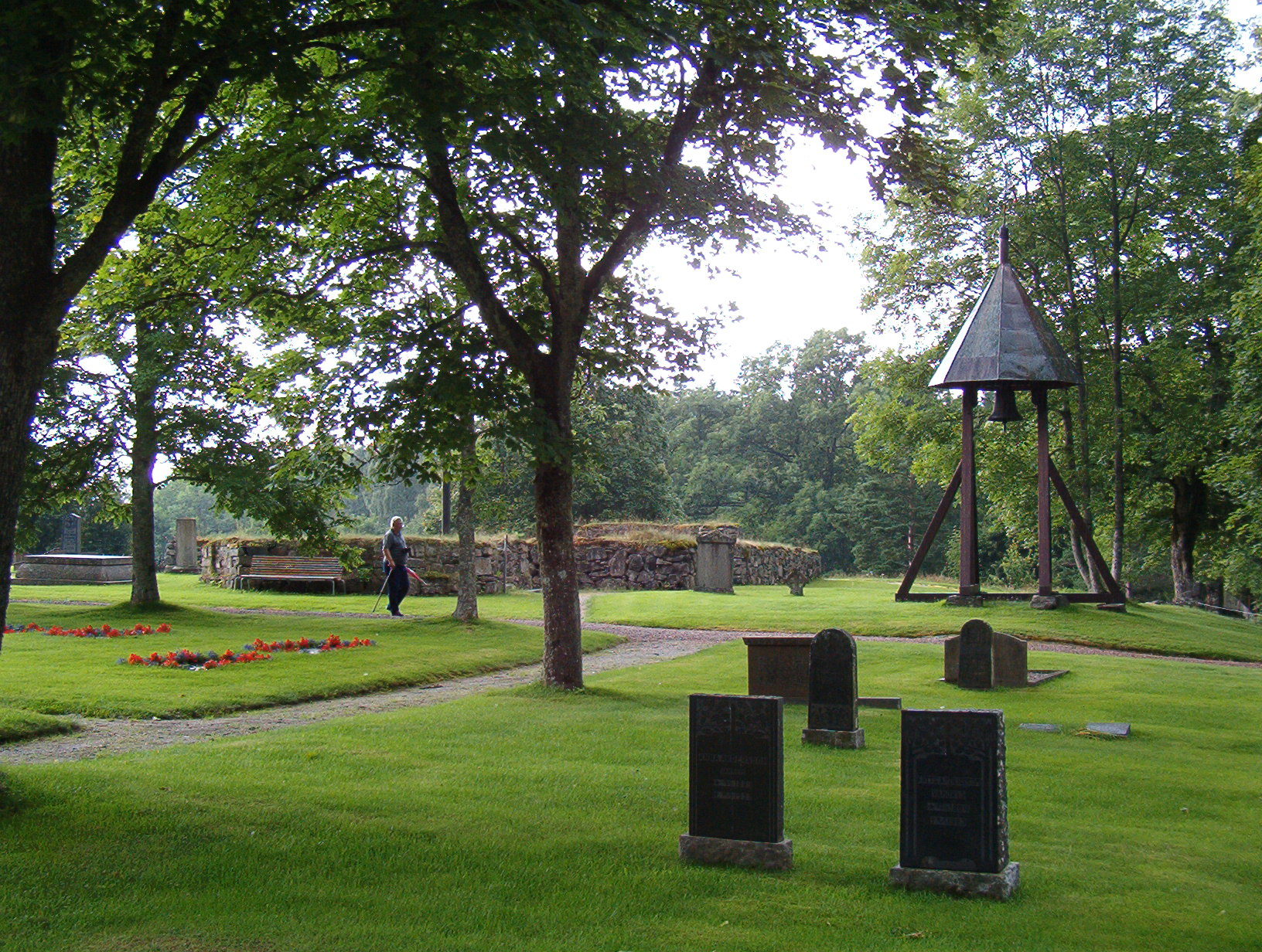 The church ruin of Lagmansered, in Västergötland. date Aug 2005